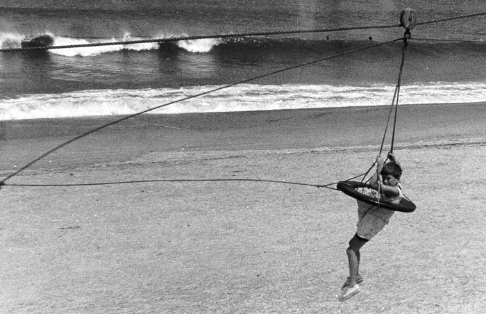 Author: US Coast Guard Historical Sociey - taken from article at - Source URL